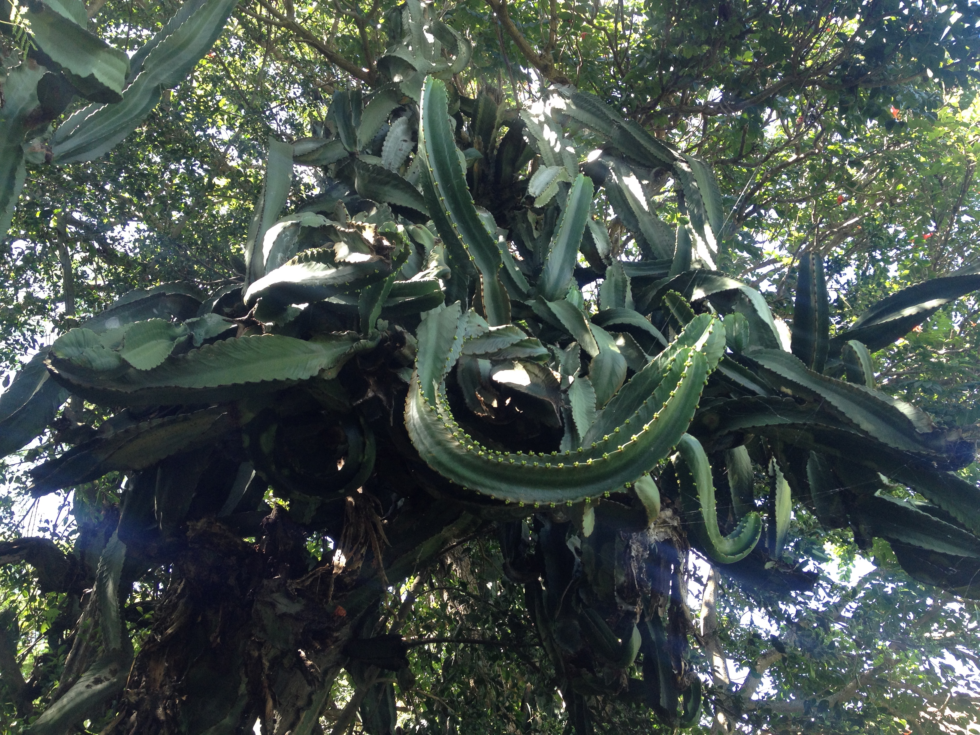 Euphorbia neglecta (also known as Euphorbia abyssinica, at Moir Gardens, Poipu, Kaua'i, Hawaii.